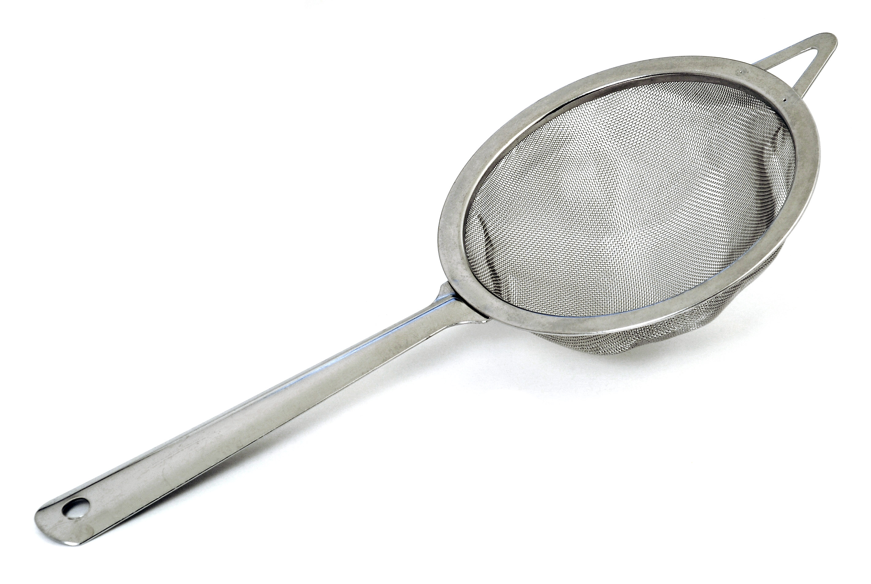 A simple kitchen strainer.